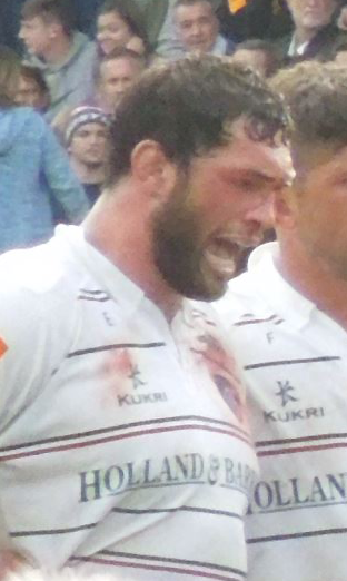 Dominic Barrow playing against Quins at the Stoop